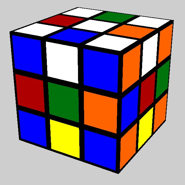 Picture of the only known Rubik’s Cube Pattern that needs min. 26 moves (quater turns) to be solved.